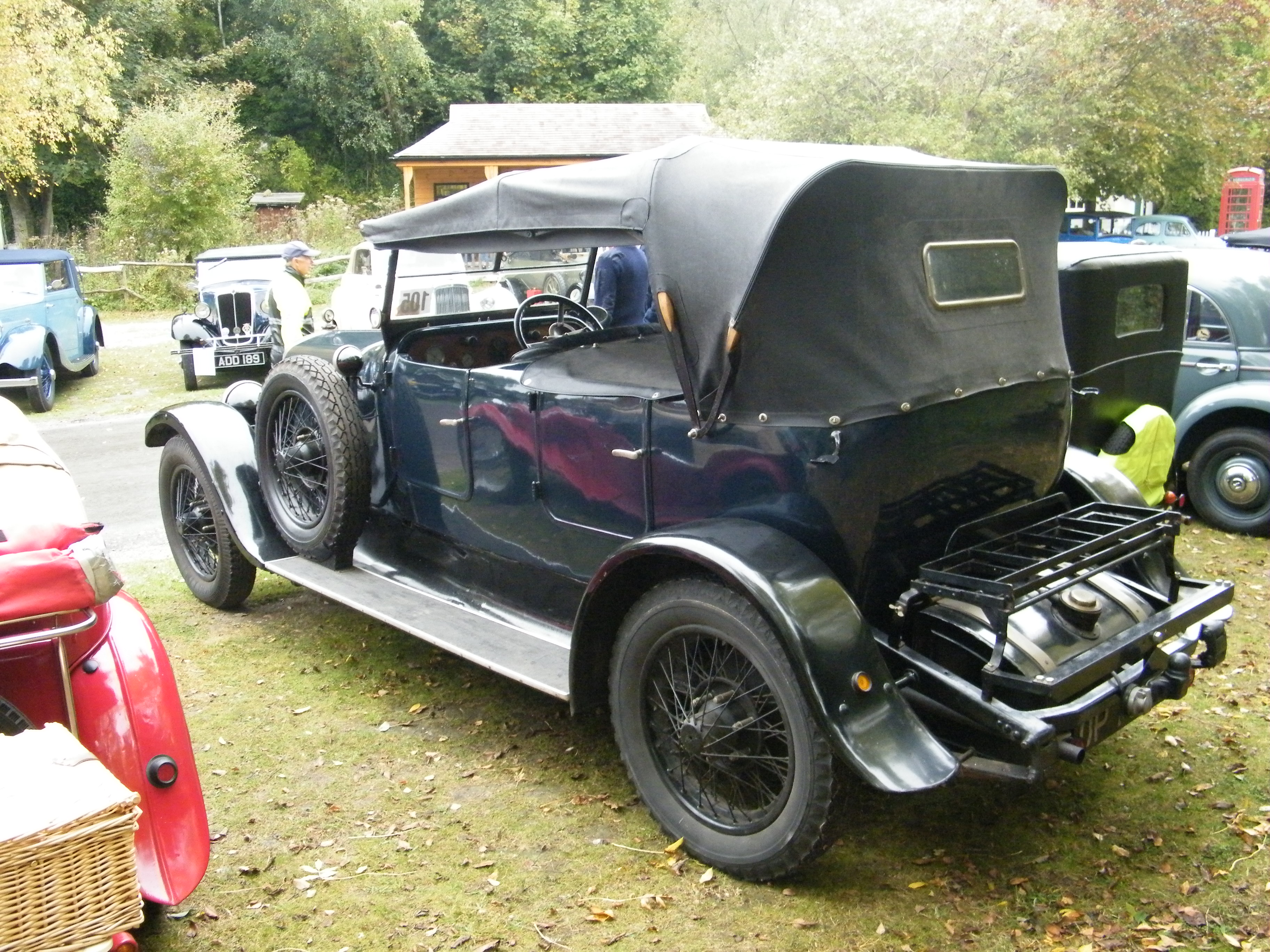 1927 Austin 20 tourer (DVLA) first registered 10 May 1927, 3600 ccAmberley Museum and Heritage Centre, Autumn vintage vehicle show